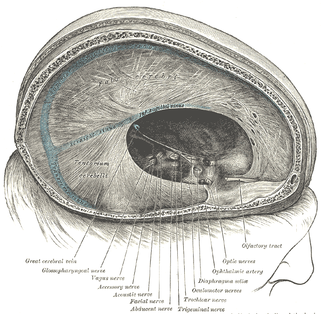 Dura mater and its processes exposed by removing part of the right half of the skull and the brain.